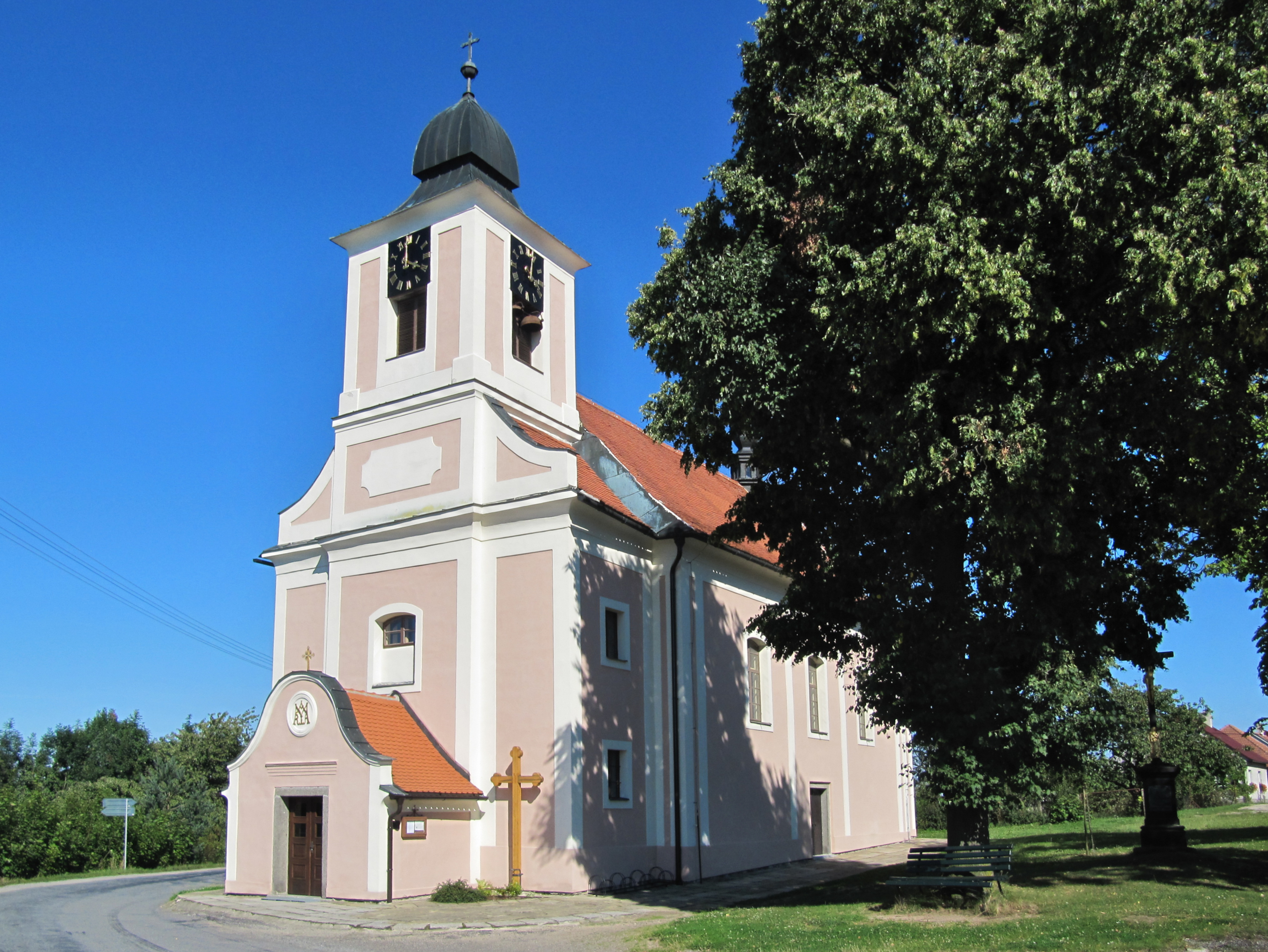 Pyšel in Třebíč District, Czech Republic. Late baroque church of St. Barbara.